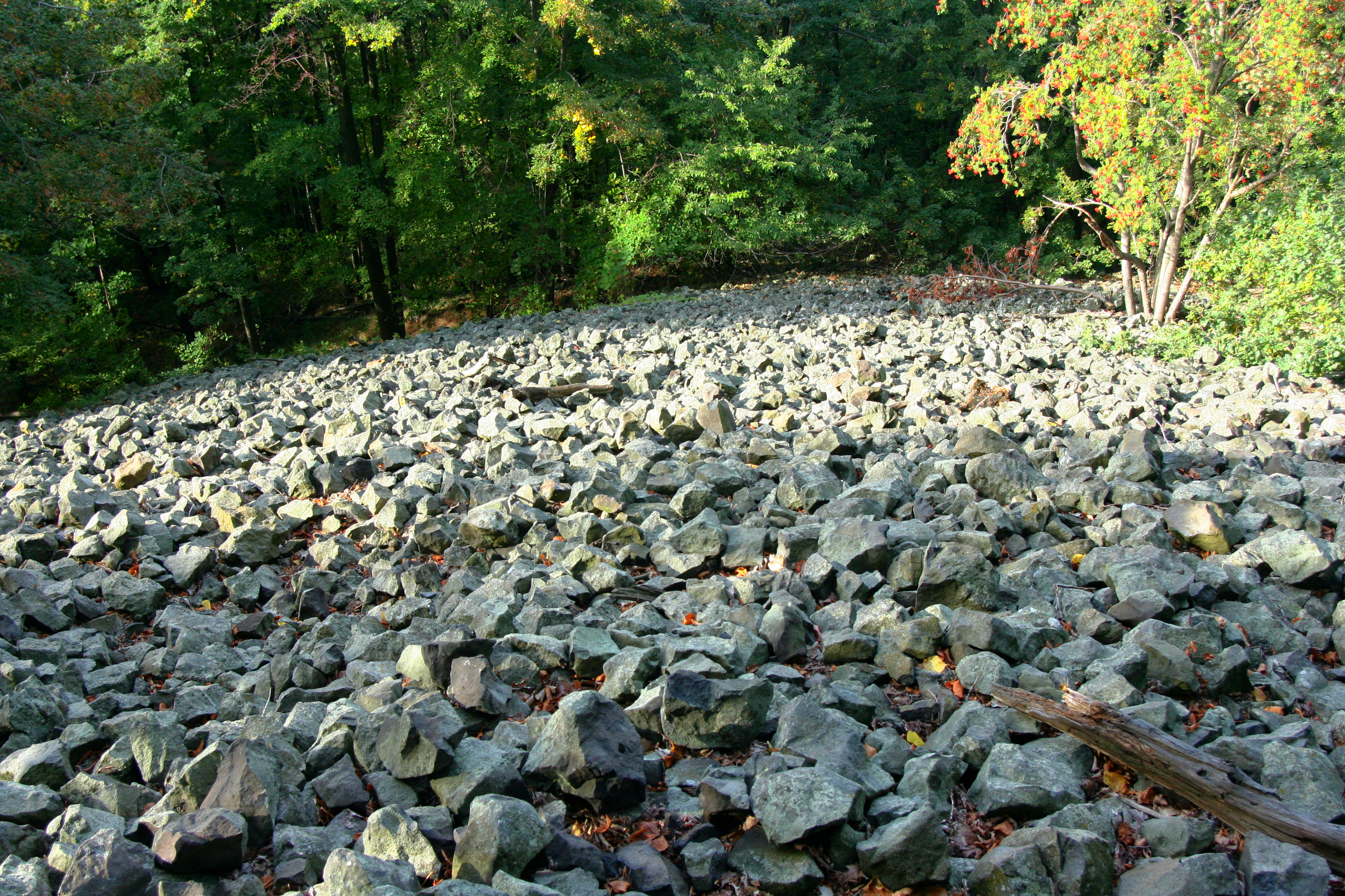 Basalt rocks on the slopes of extinct volcano Ostrzyca (501 m) near Wleń, Lower Silesia, Poland.